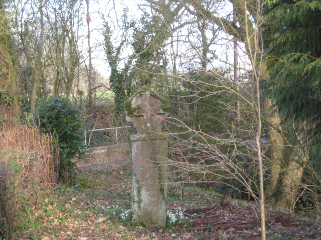 Cross at Croes Llwyd Farm, Raglan, Monmouthshire, Wales. A Grade I listed structure.